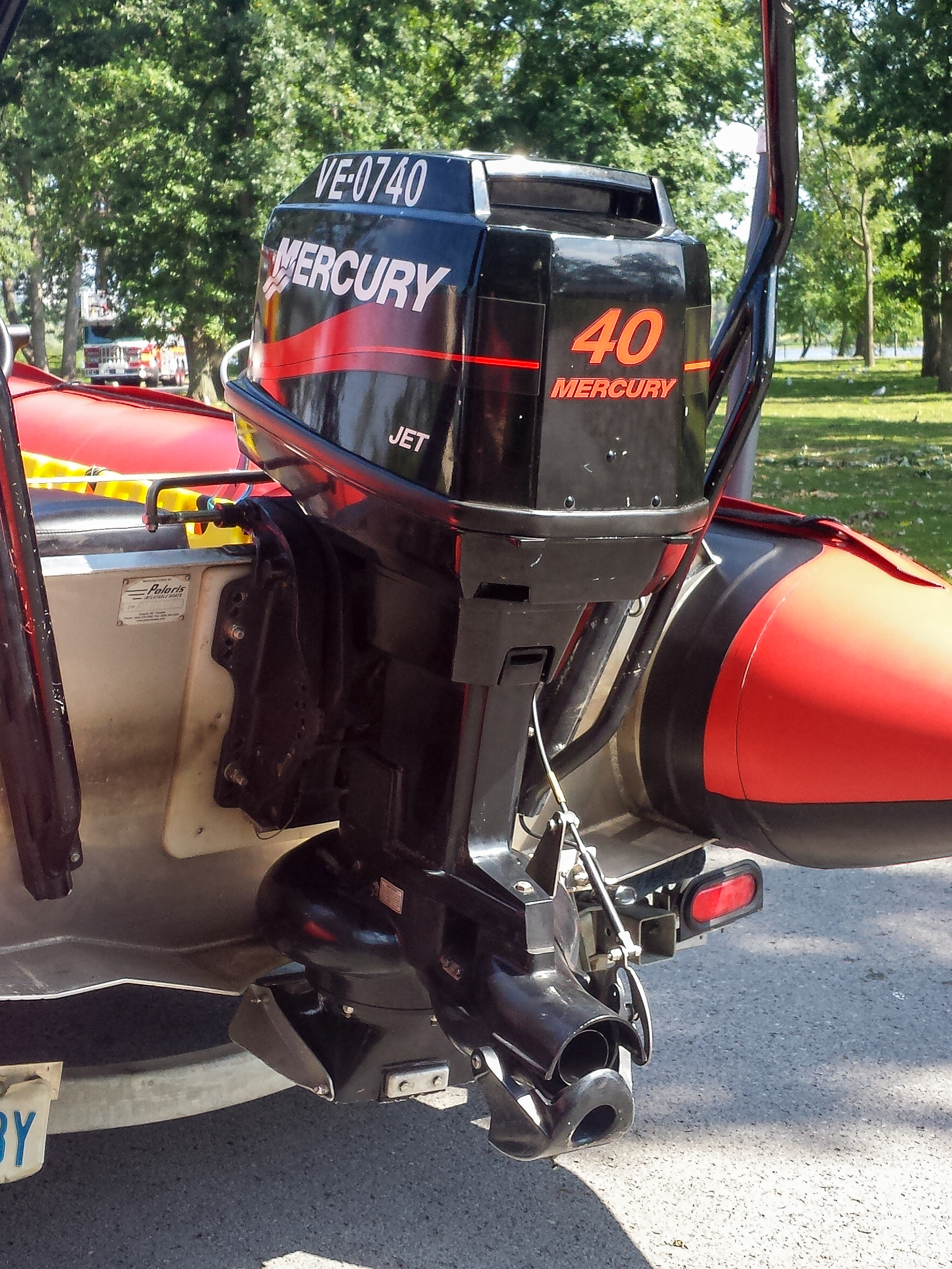 Mercury outboard pump-jet engine